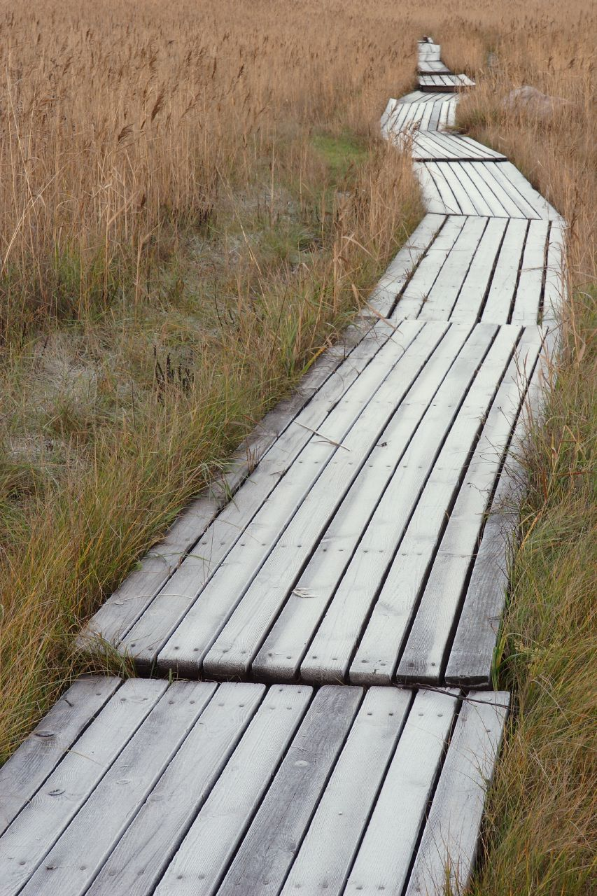 Duckboards from cape Kallahdenniemi in Kallahti (Kallvik), Vuosaari, Helsinki, Finland